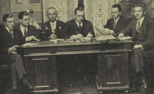 first board of SML (aircraft engineers association)